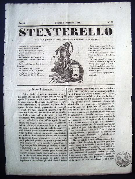 first page of satirical newspaper Lo Stenterello 5 november 1848